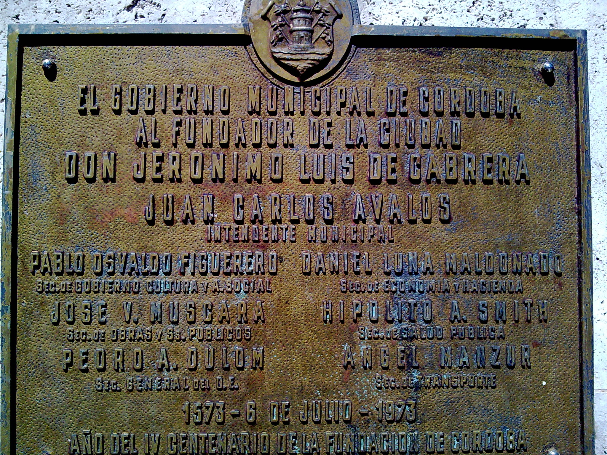 Plaque marking the fourth centenary of Cordoba, Argentina.